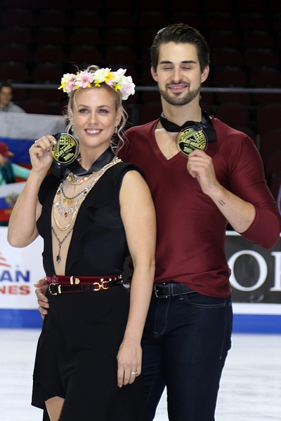 Madison Hubbell and Zachary Donohue - 2019 Skate America